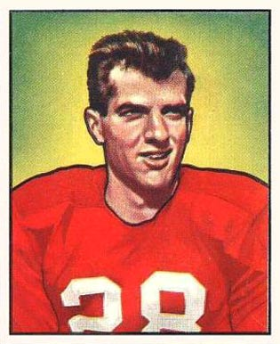 American football player Frank Tripucka on a 1950 Bowman card.